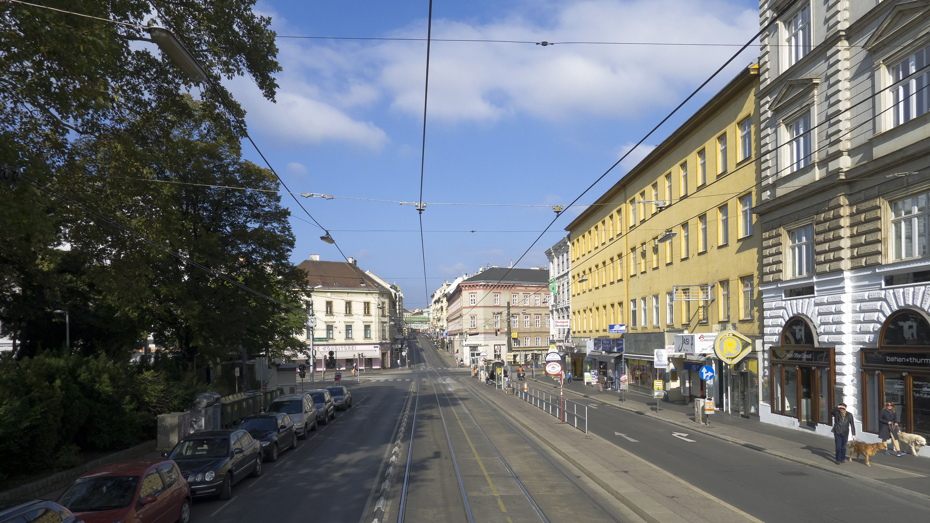 Währinger Straße in Wien 9 bei Nr. 46 Richtung Nordwesten